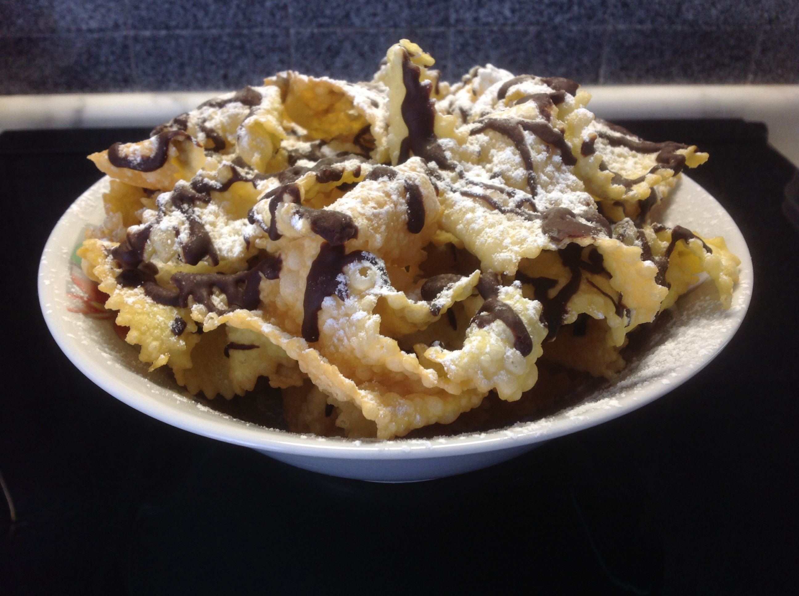 An image of an Italian traditional sweet pastry made usually during the Carnival period. These frappe are garnished with chocolate and icing sugar.